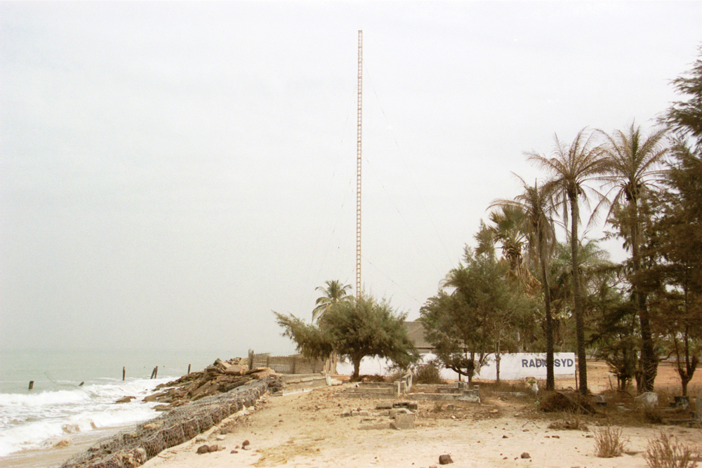 The first commercial radio station in Africa built in 1969. Radio Syd 909 kHz in The Gambia.